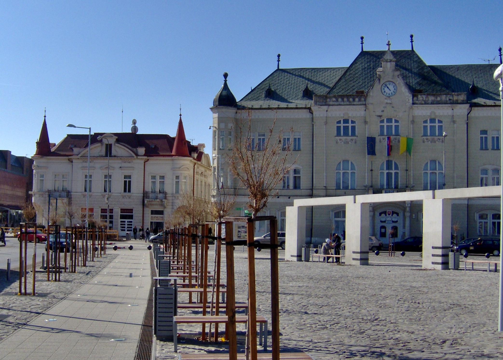 Town hall of Levice